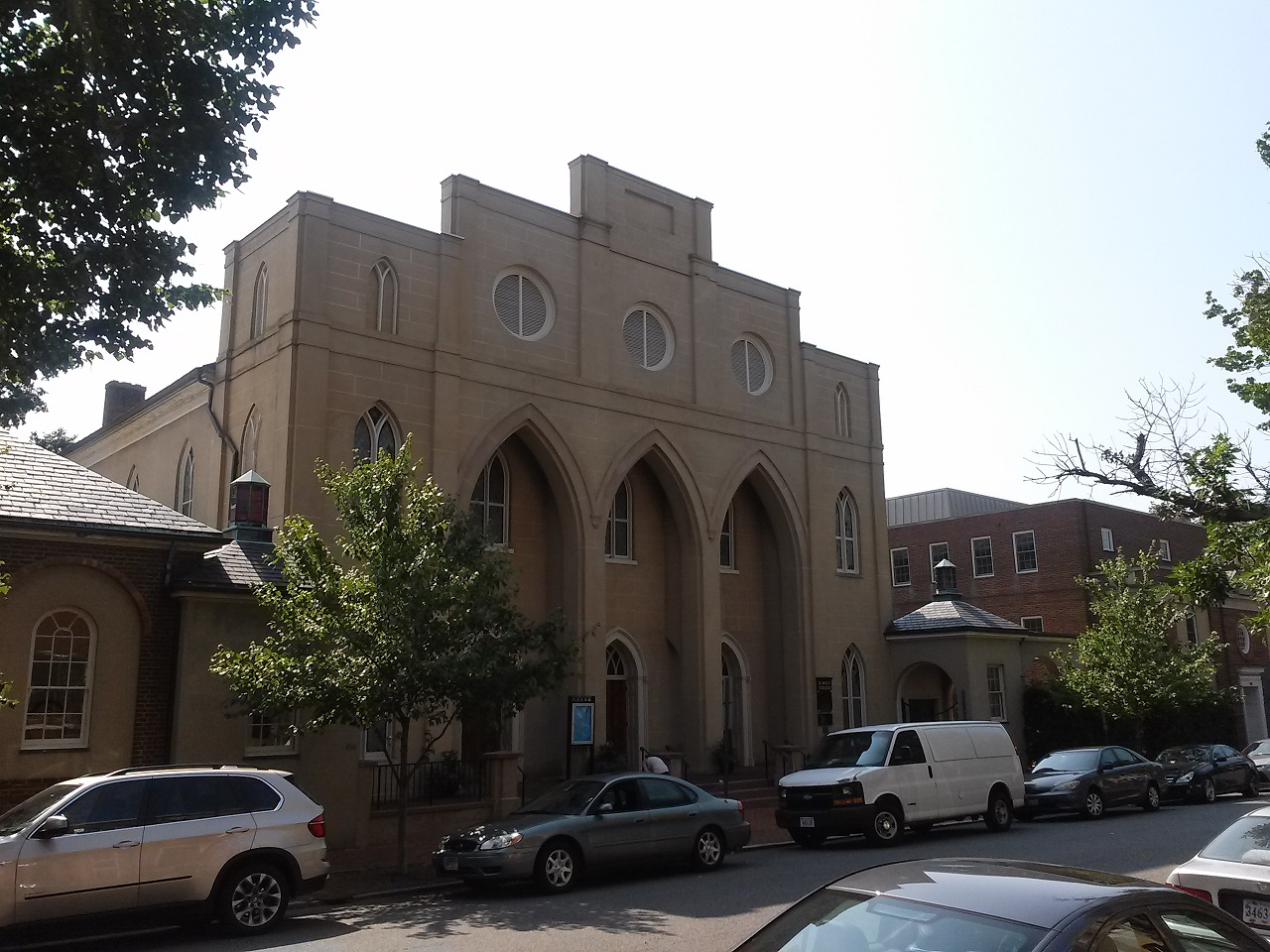 St. Paul's Church with Wilmer parish hall